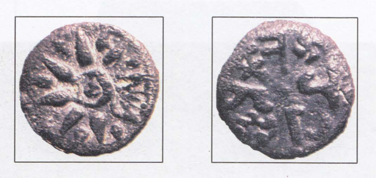 Uttiran